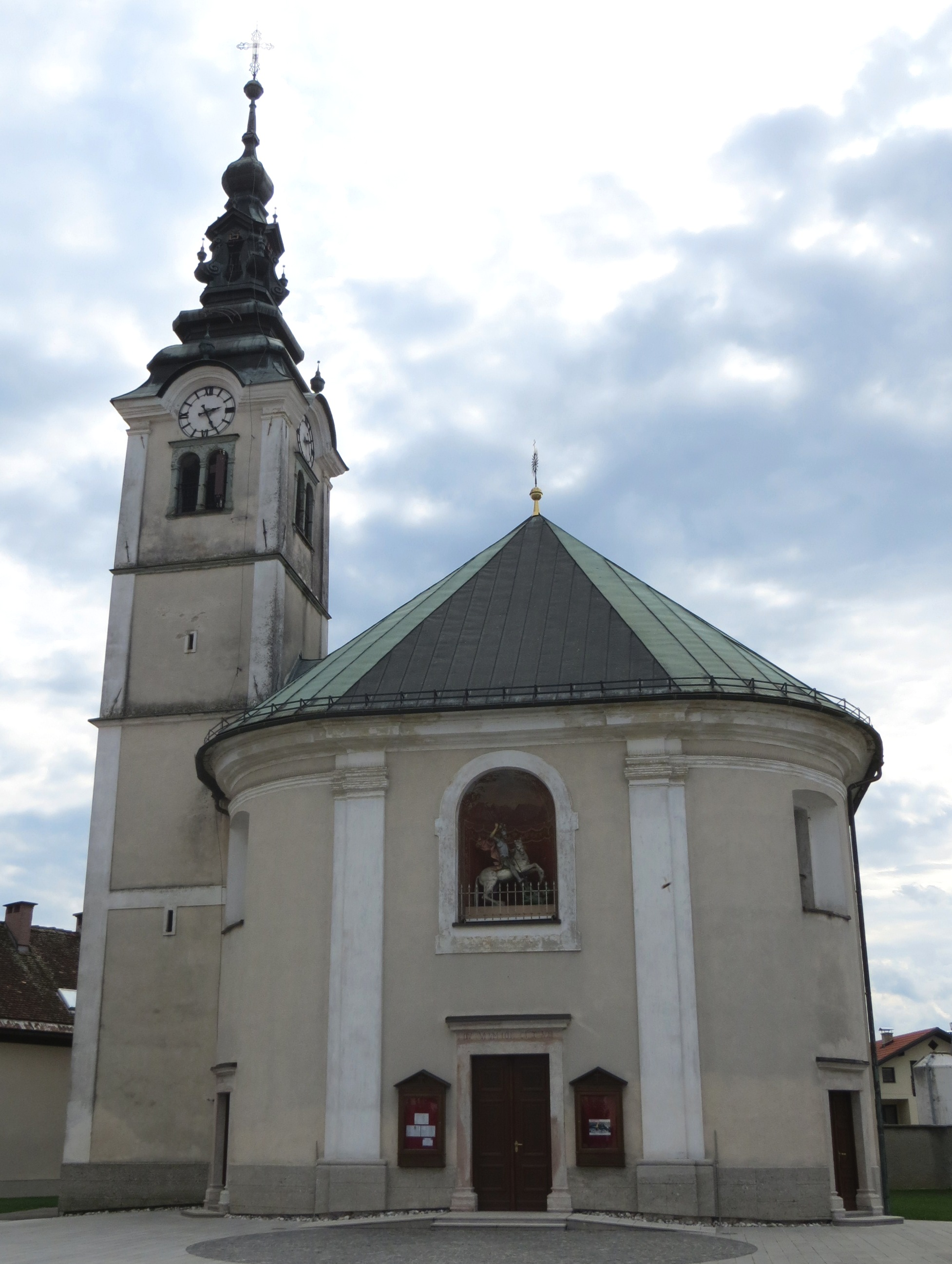 Saint George's Church in Šenčur, Municipality of Šenčur, Slovenia